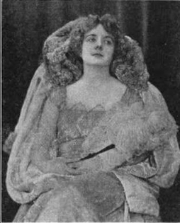 A young white woman, seated, wearing an ornate gown and a fur with a high collar.